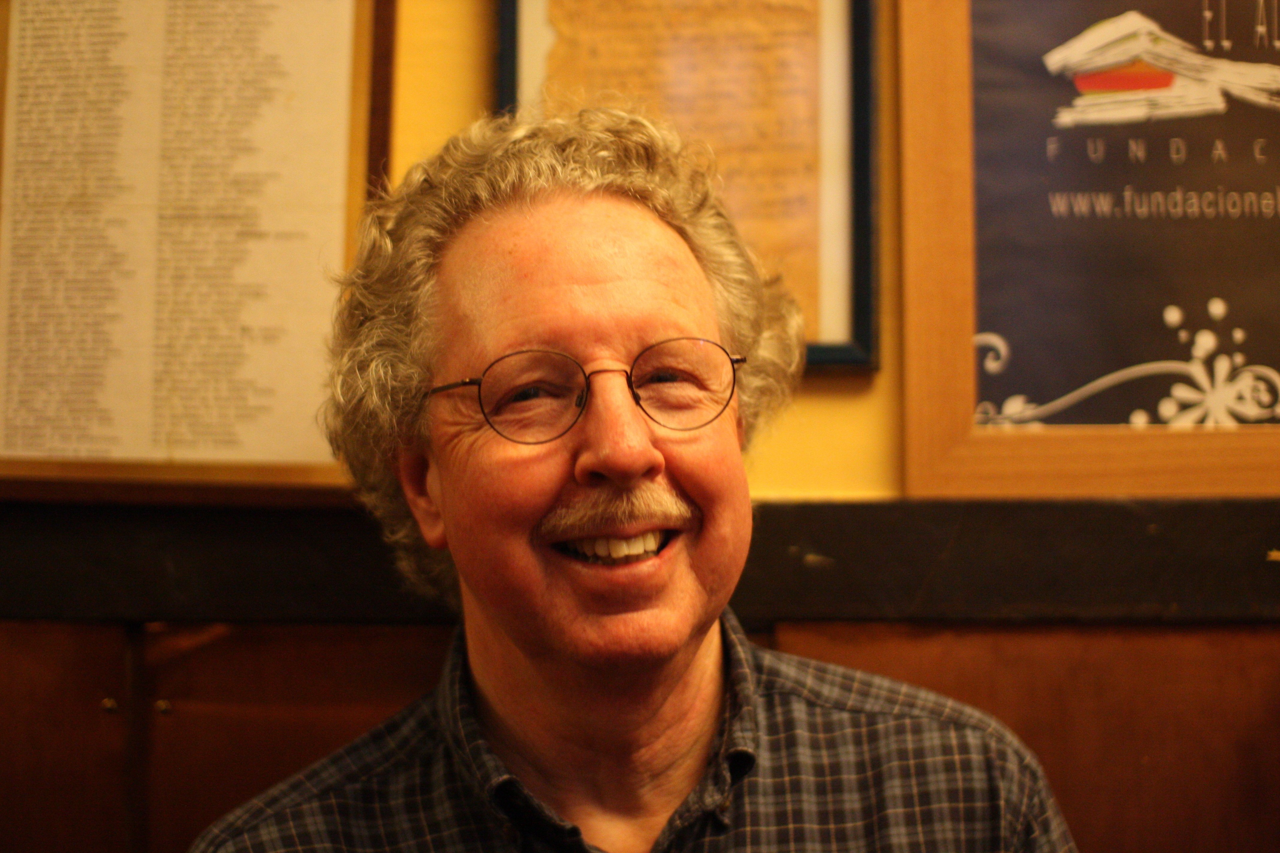 Langdon Winner in Madrid